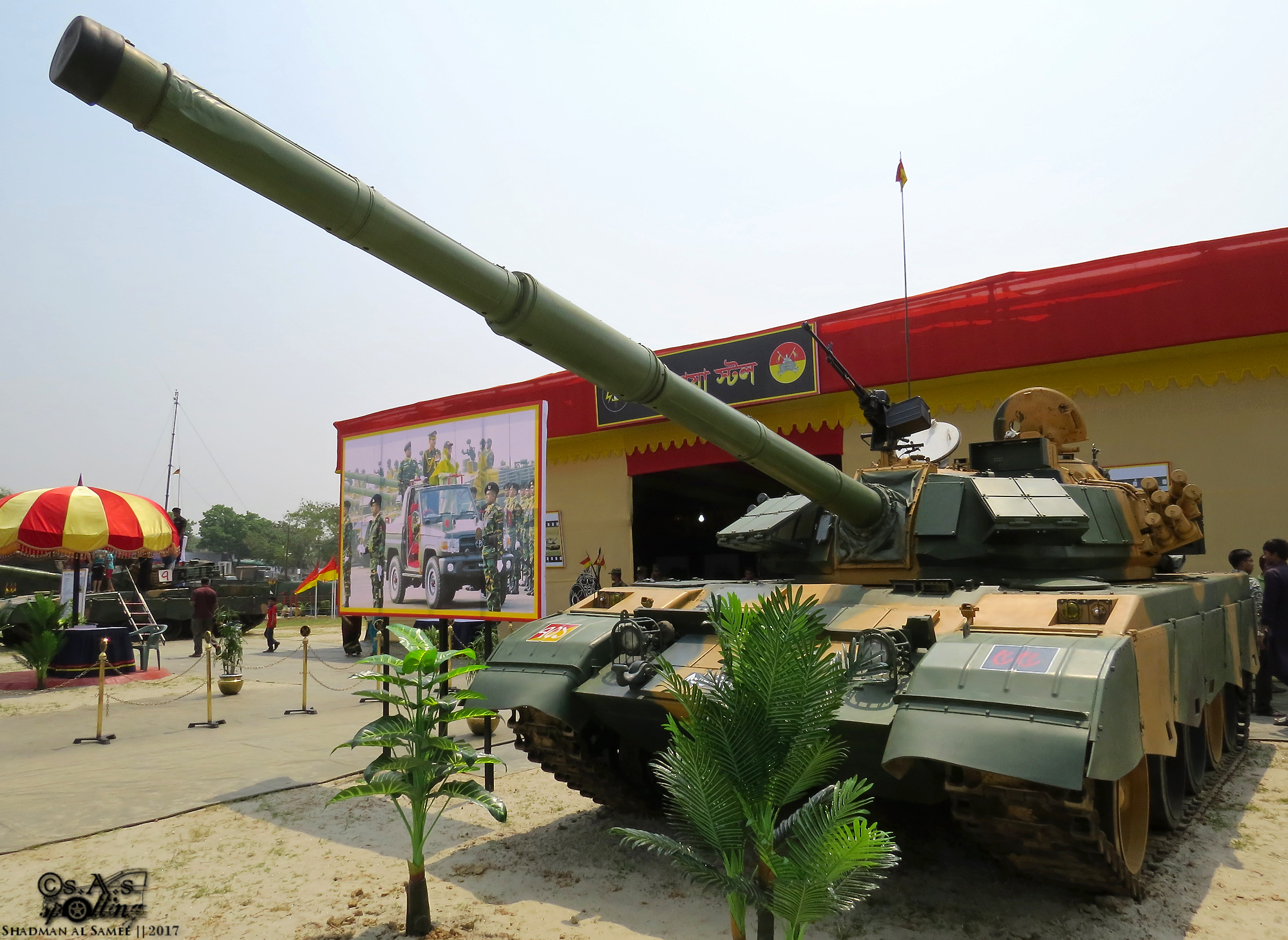 VGTJ/ MHD 2017: Very MBT-2000ish at the first glance! Locally upgraded. Also, this is as wide as I could go with my SX50.